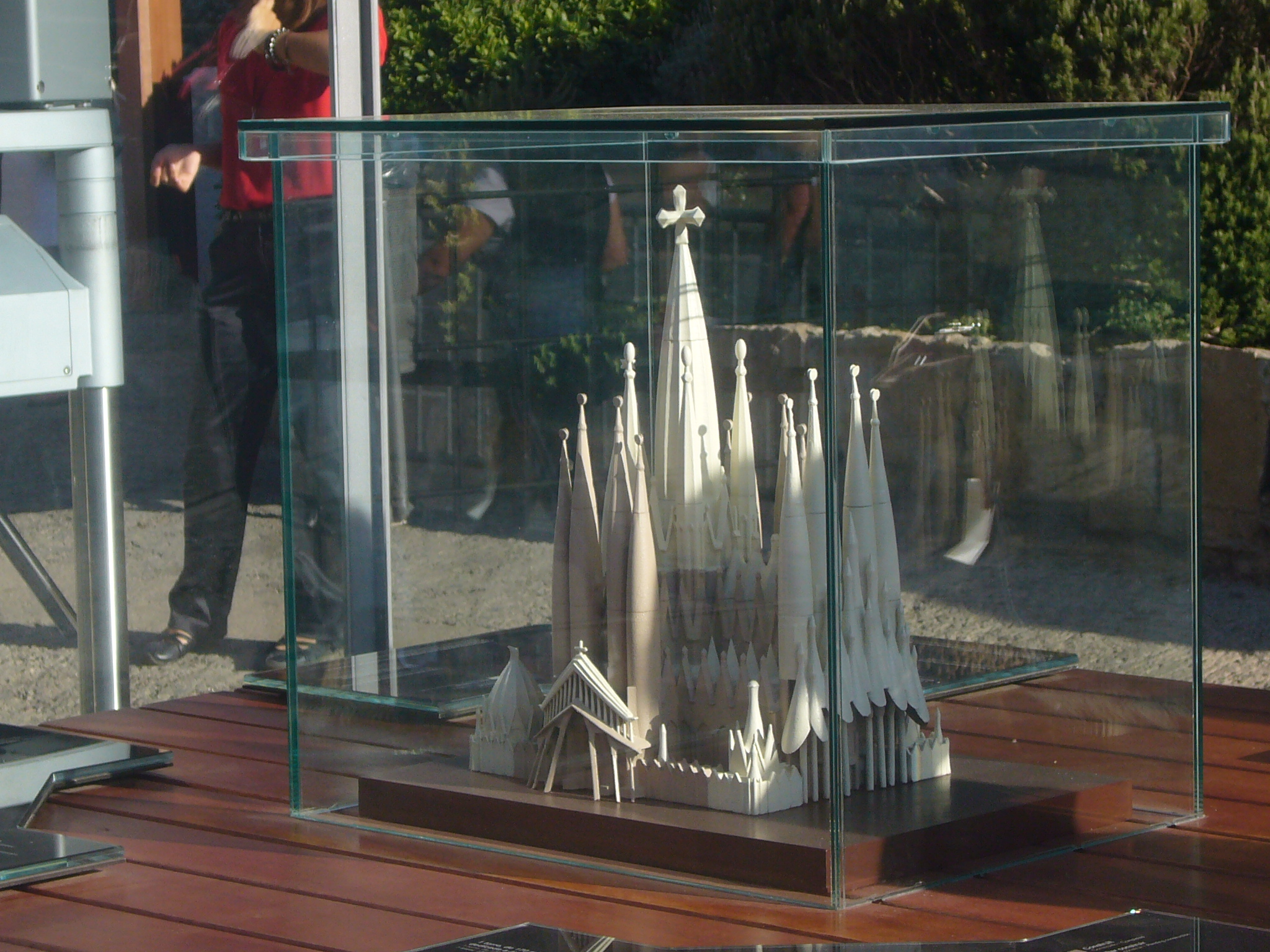 Scale model of Sagrada Familia, displayed at the entrance of Sardenya street